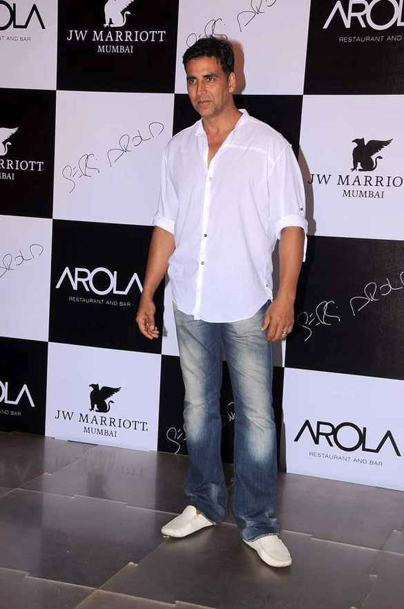 Akshay Kumar at the Launch of new restaurant 'Arola' at J W Marriott